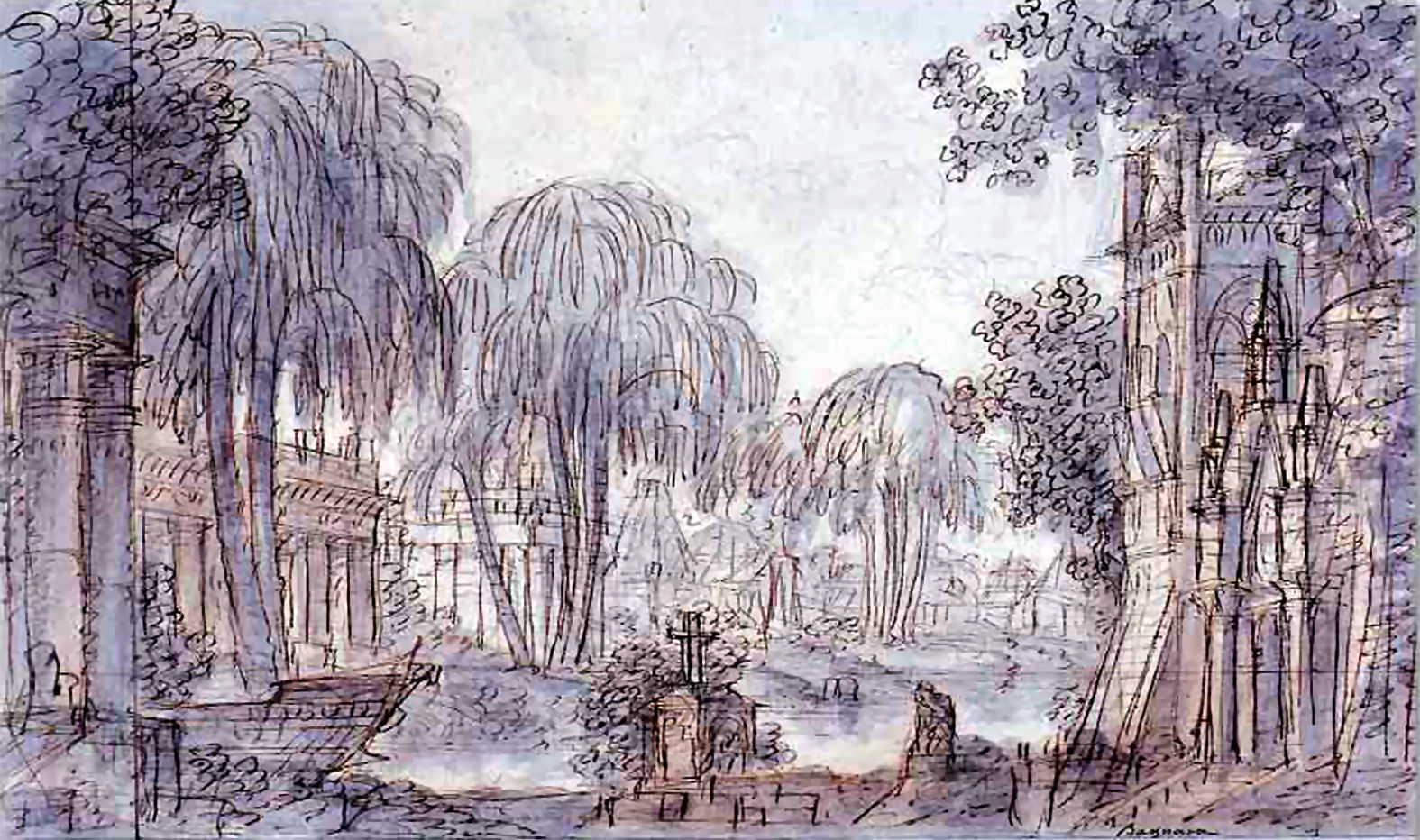 Francesco Bagnara's stage set (1824) for Giacomo Meyerbeer's Il crociato in Egitto (Act II, Scene 3)